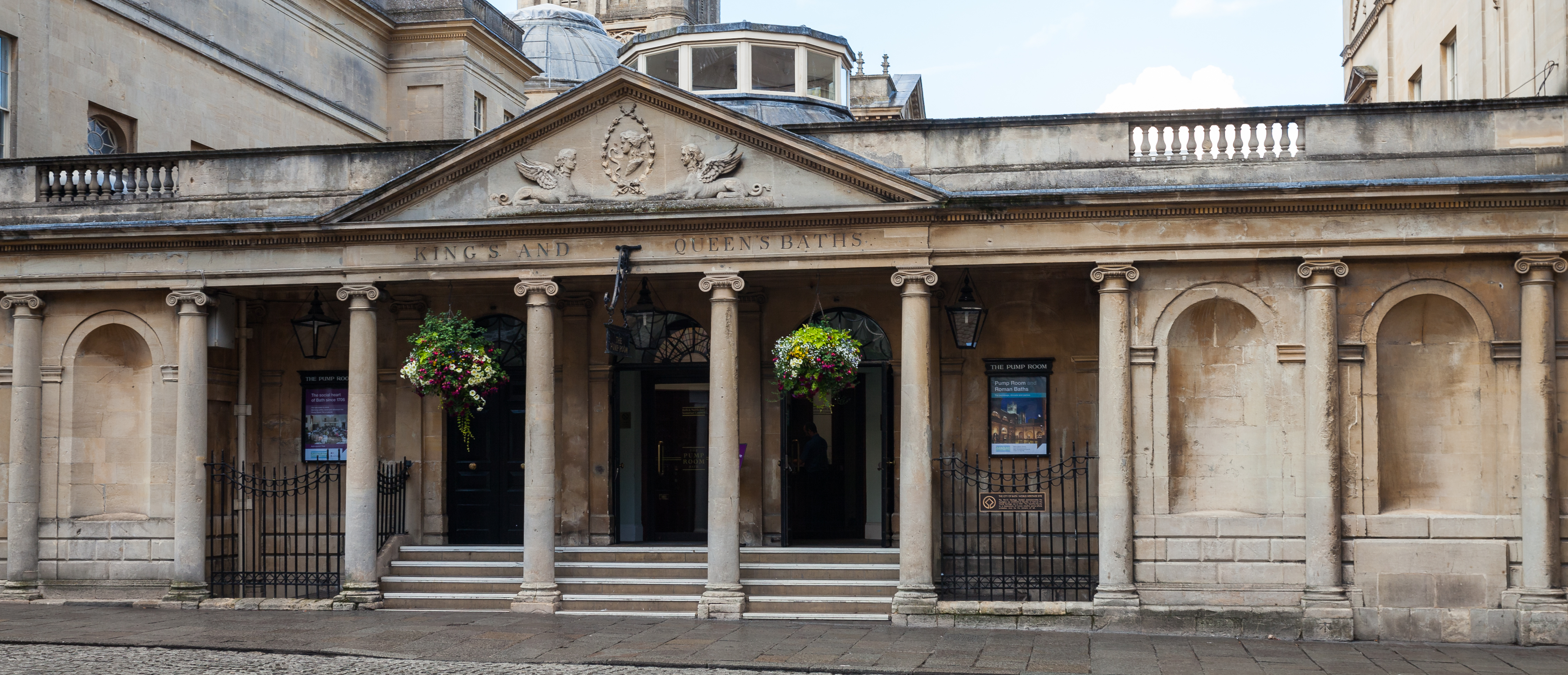 Roman Baths, Bath, England